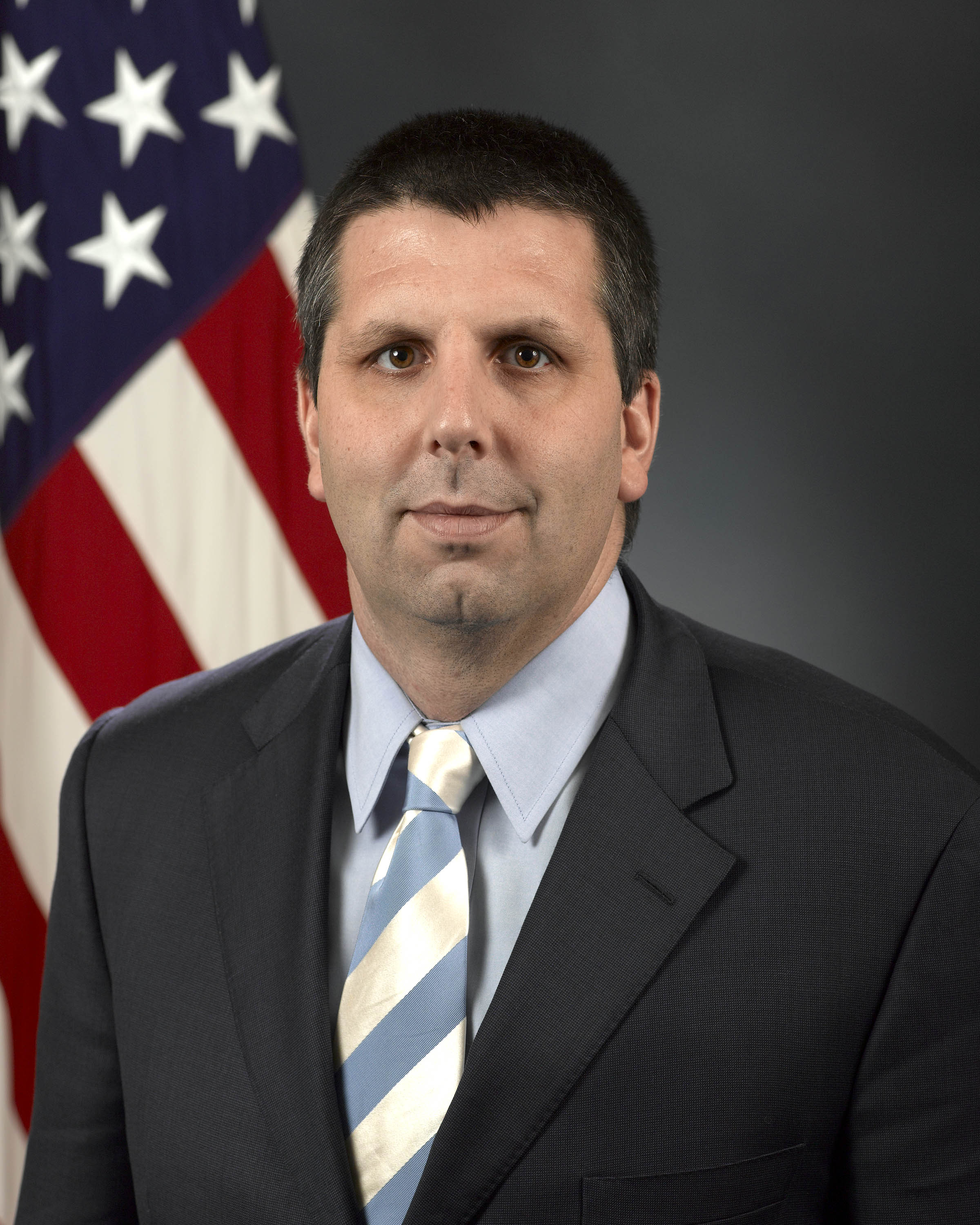 Mark Lippert, Under Secretary